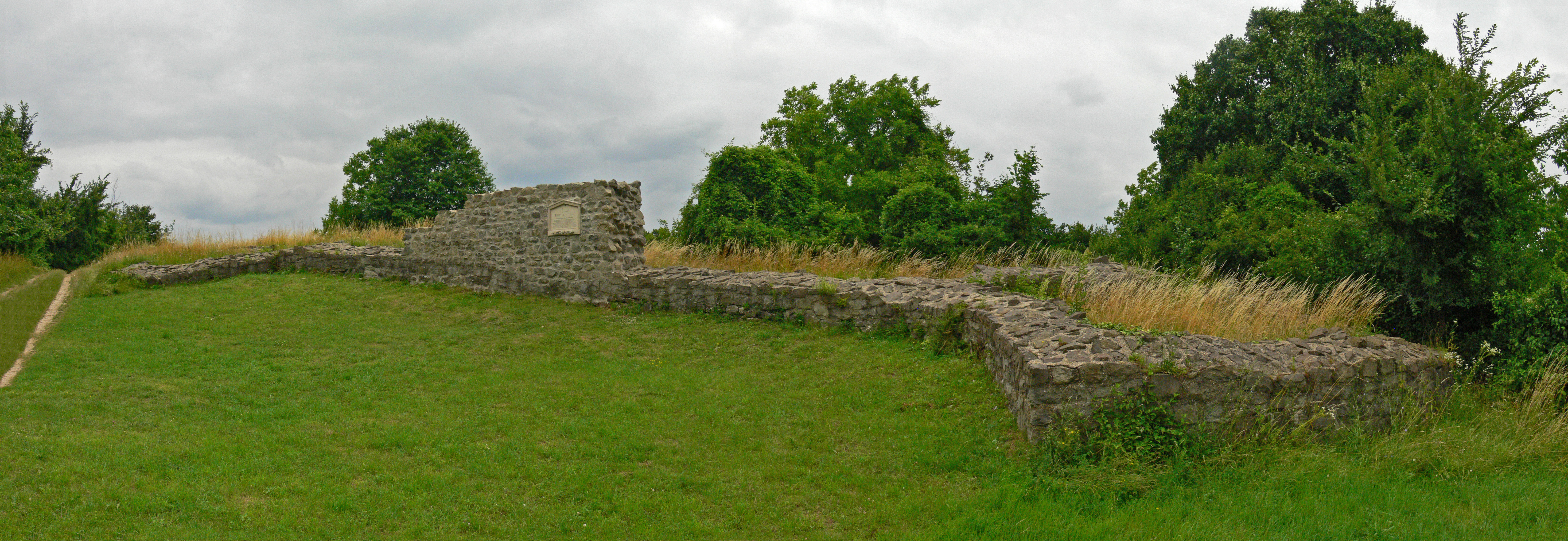 Wall remnants of the roman castle Pone Navata, later the first castle of Visegrád